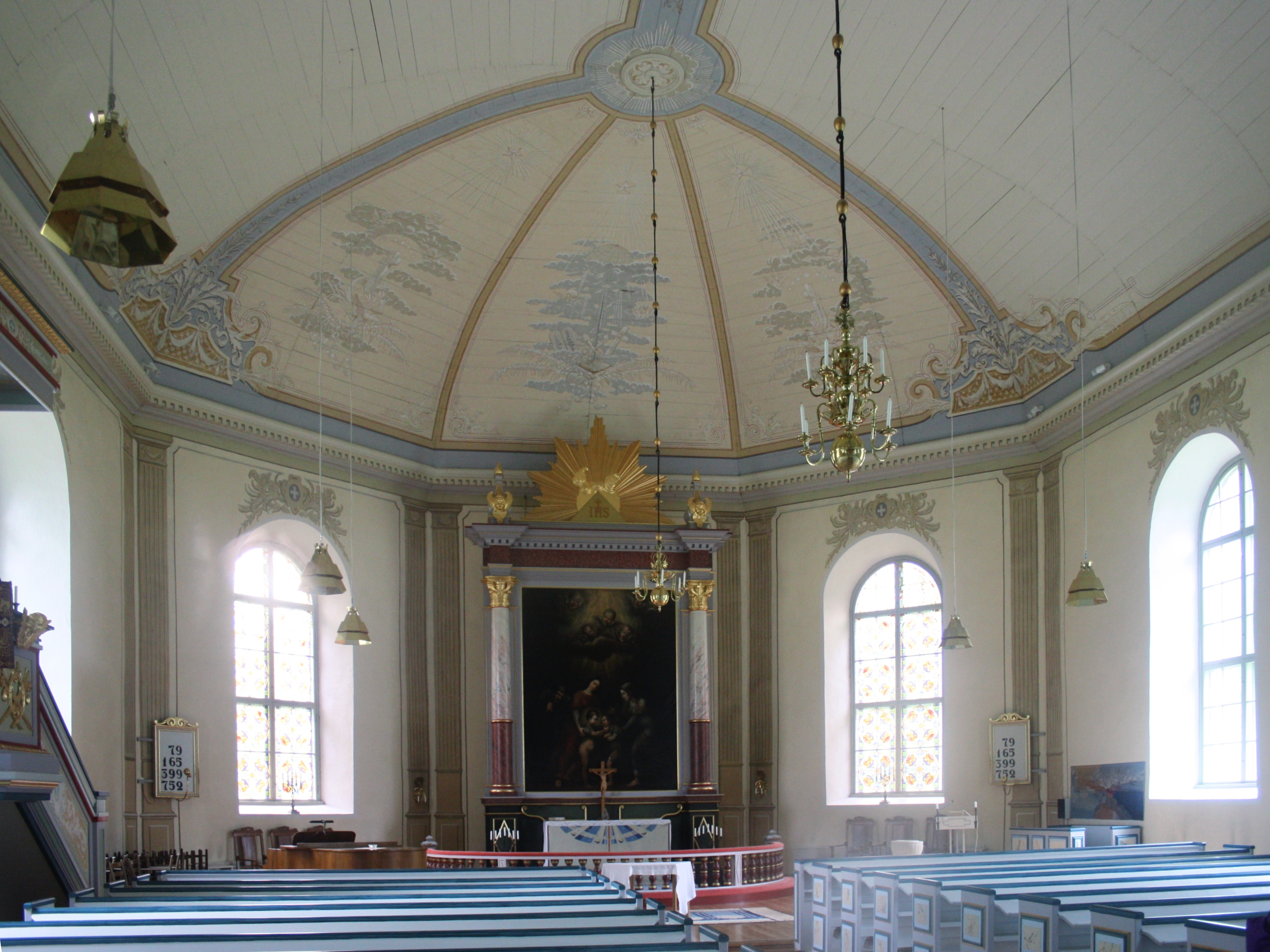 Norra Råda in Hagfors kommun, Sweden. Parish church, nave towards South.